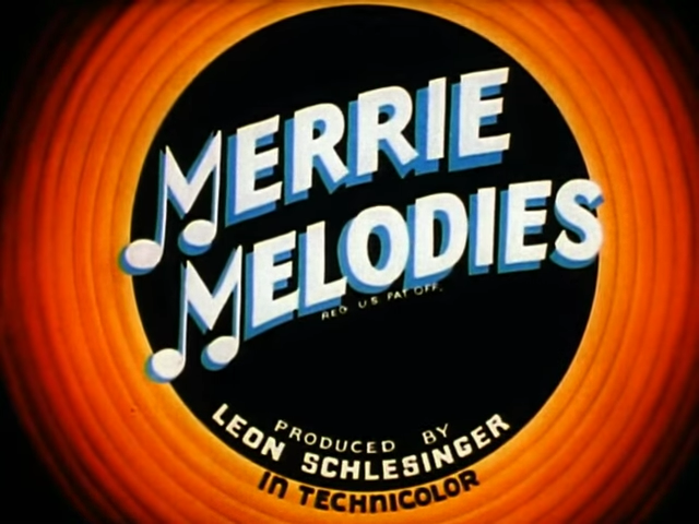 Classic title card for the Warner Brothers' famed cartoon series Merrie Melodies.